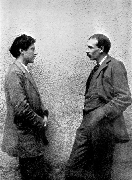 Painter Duncan Grant (left) with economist John Maynard Keynes. Asheham House in Sussex, the home of Leonard and Virginia Woolf. Grant and Keynes were lovers between 1907 and 1914